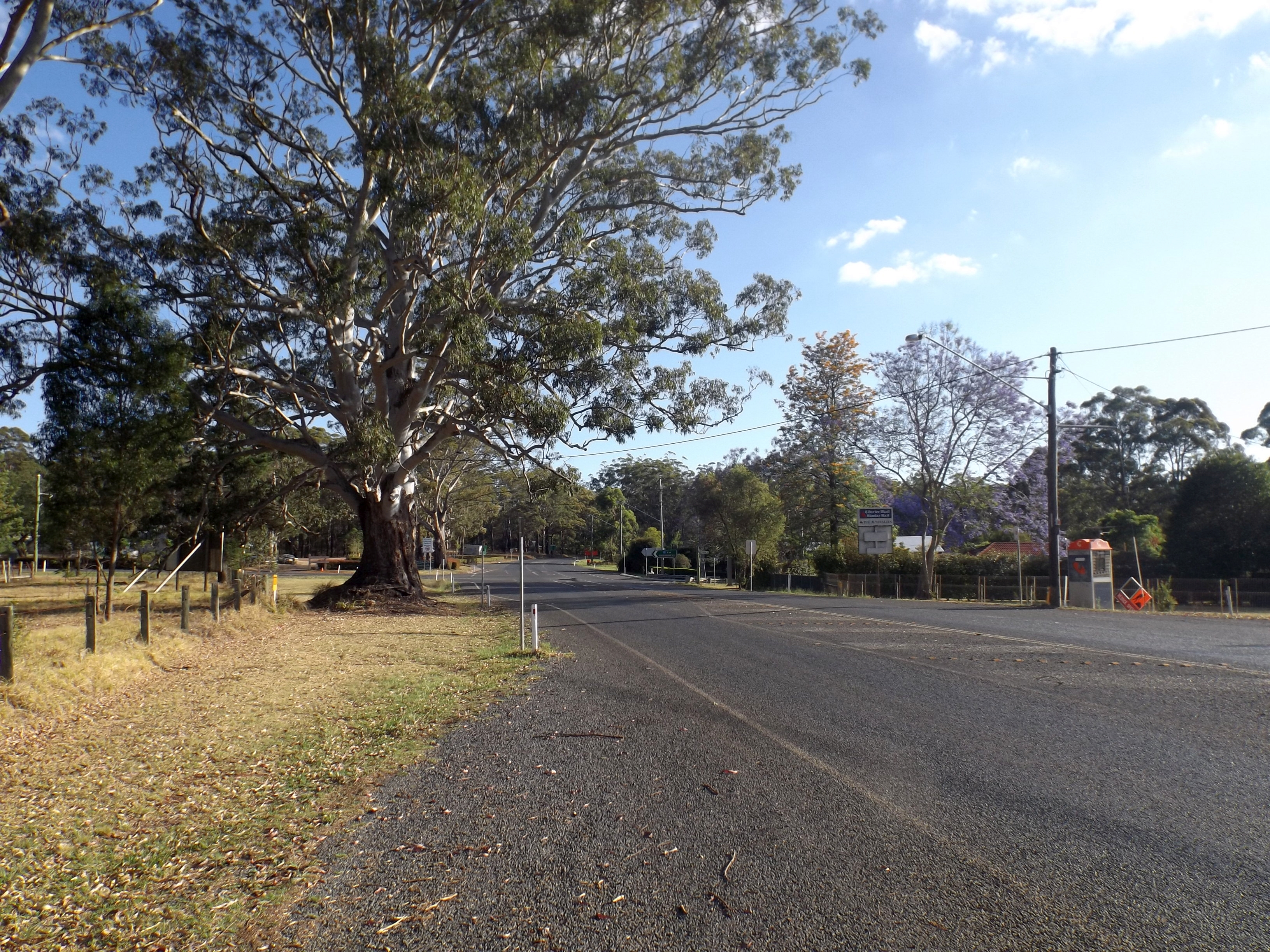 Photo of the New England Highway at Hampton, Queensland, Australia.